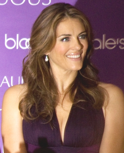 Elizabeth Hurley at the launch of Estee Lauder's new fragrance, Sensuous, in July 2008. (edited, cropped from Image:SensuousLaunch2008.jpg)